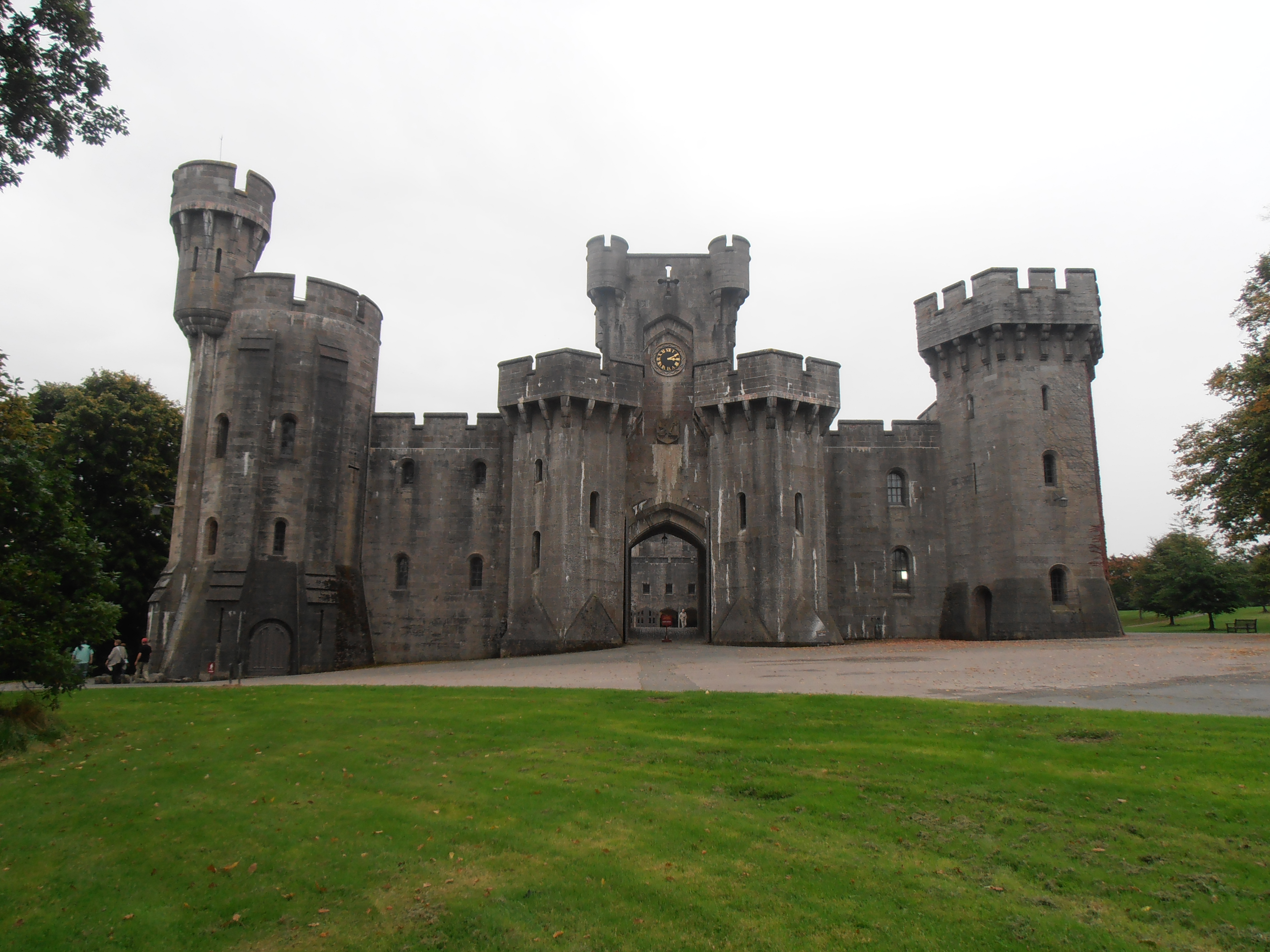 Penrhyn Castle, Gwynedd; Grade 1 listing; Cadw. North Wales